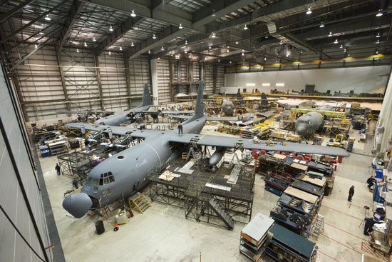 C130 Hercules in the Cascade Aerospace hanger